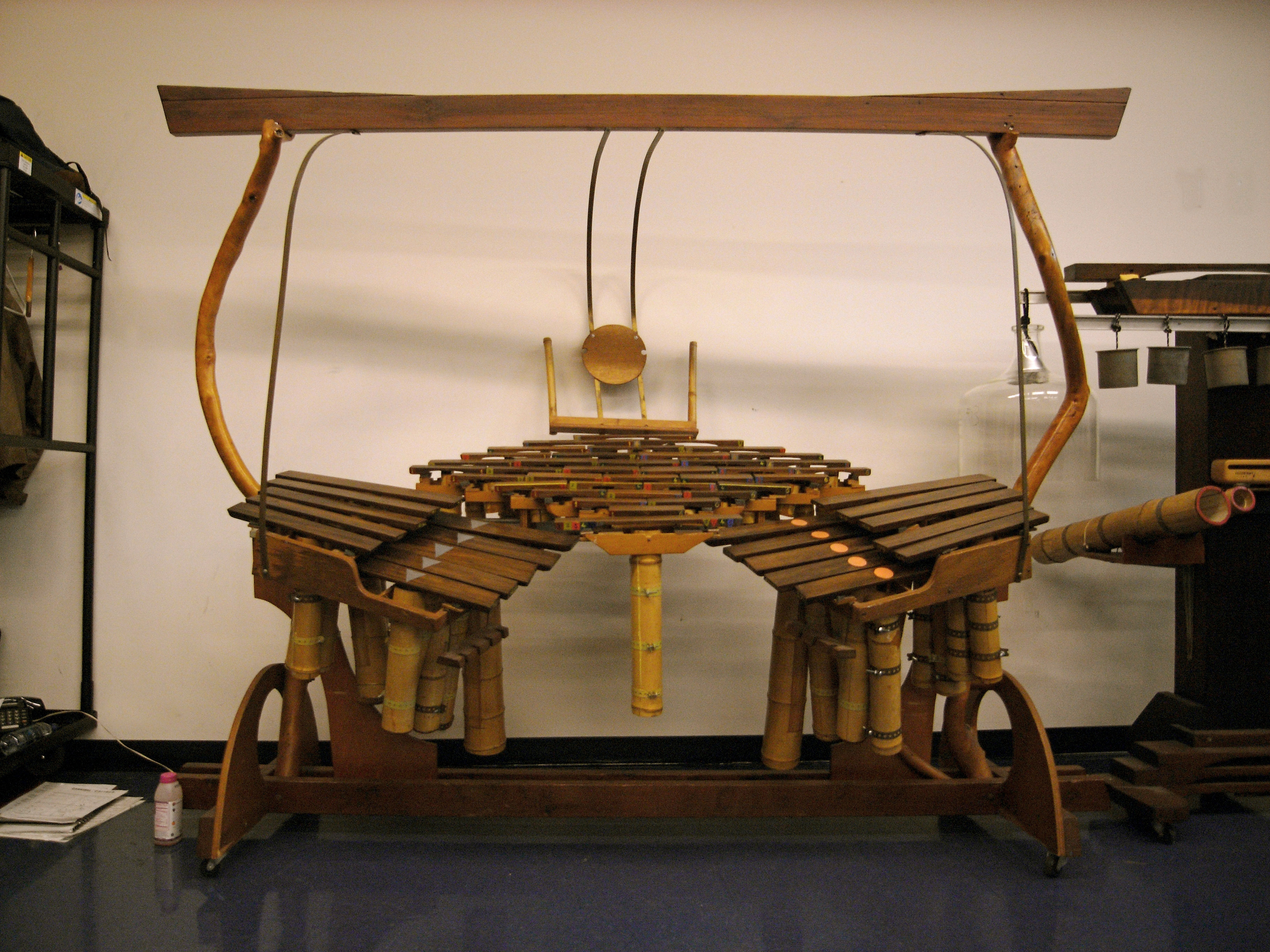 Harry Partch Institute open house 2008. Quadrangularus Reversum 2